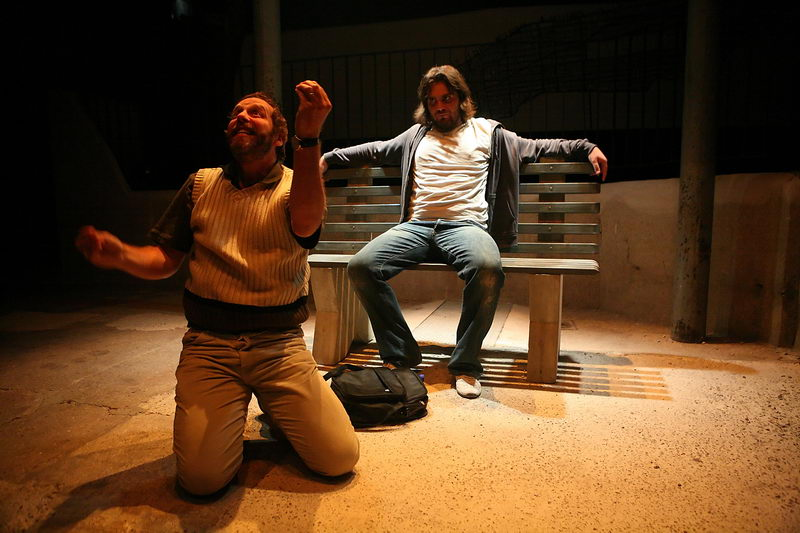 \Derivative work, licence of original's copyright holder missing. --Wikipeder (talk) 19:04, 9 March 2010 (UTC) The Zoo Story by Edward Albee, Produced in Luxembourg, Kulturfabrik by Marc Baum, Actors Paul Christophe and Pitt Simon, photographed by Charles betz 16:00, 13 June 2007 (UTC)